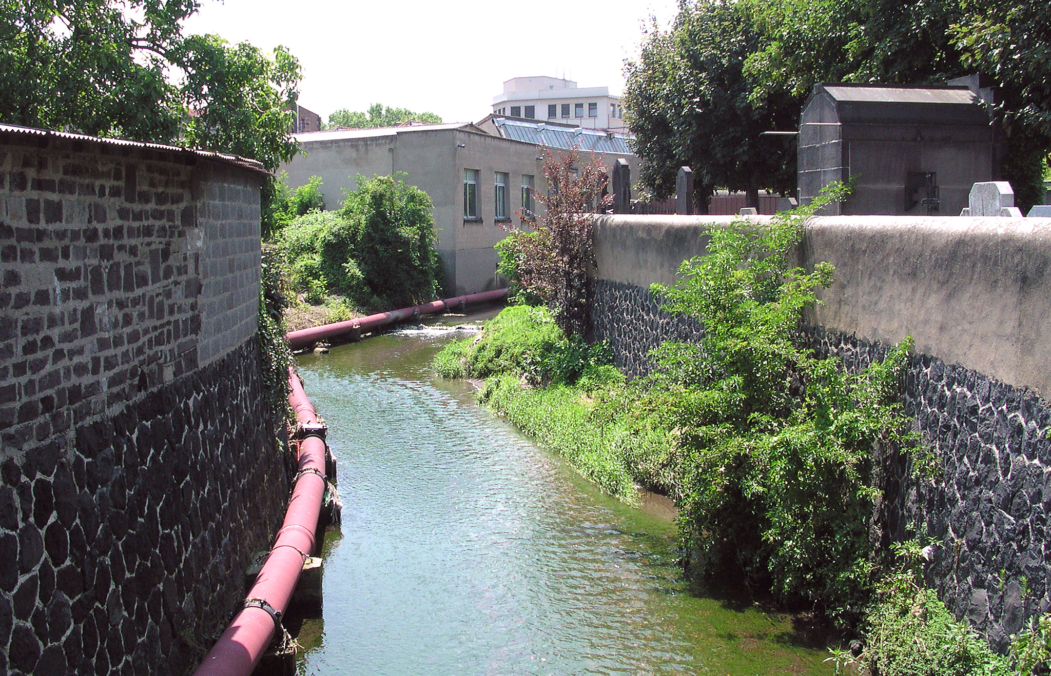 Tiretaine river at Clermont-Ferrand. Picture taken from the bridge in the Carmes cimetery